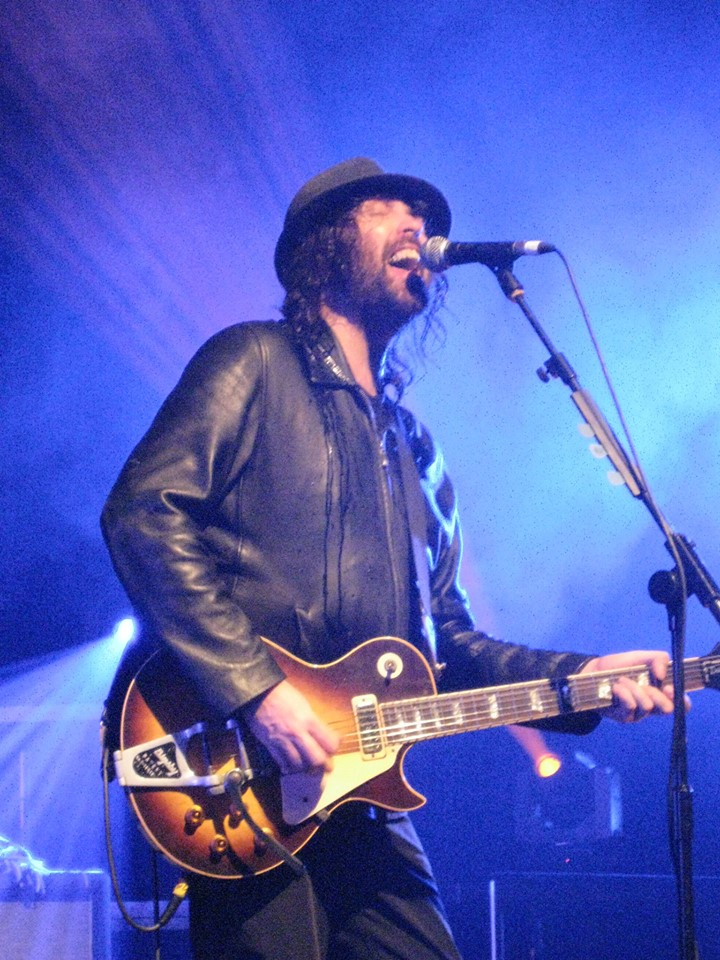 Ian McNabb performing at Digbeth, the crossing, 1st February 2014.